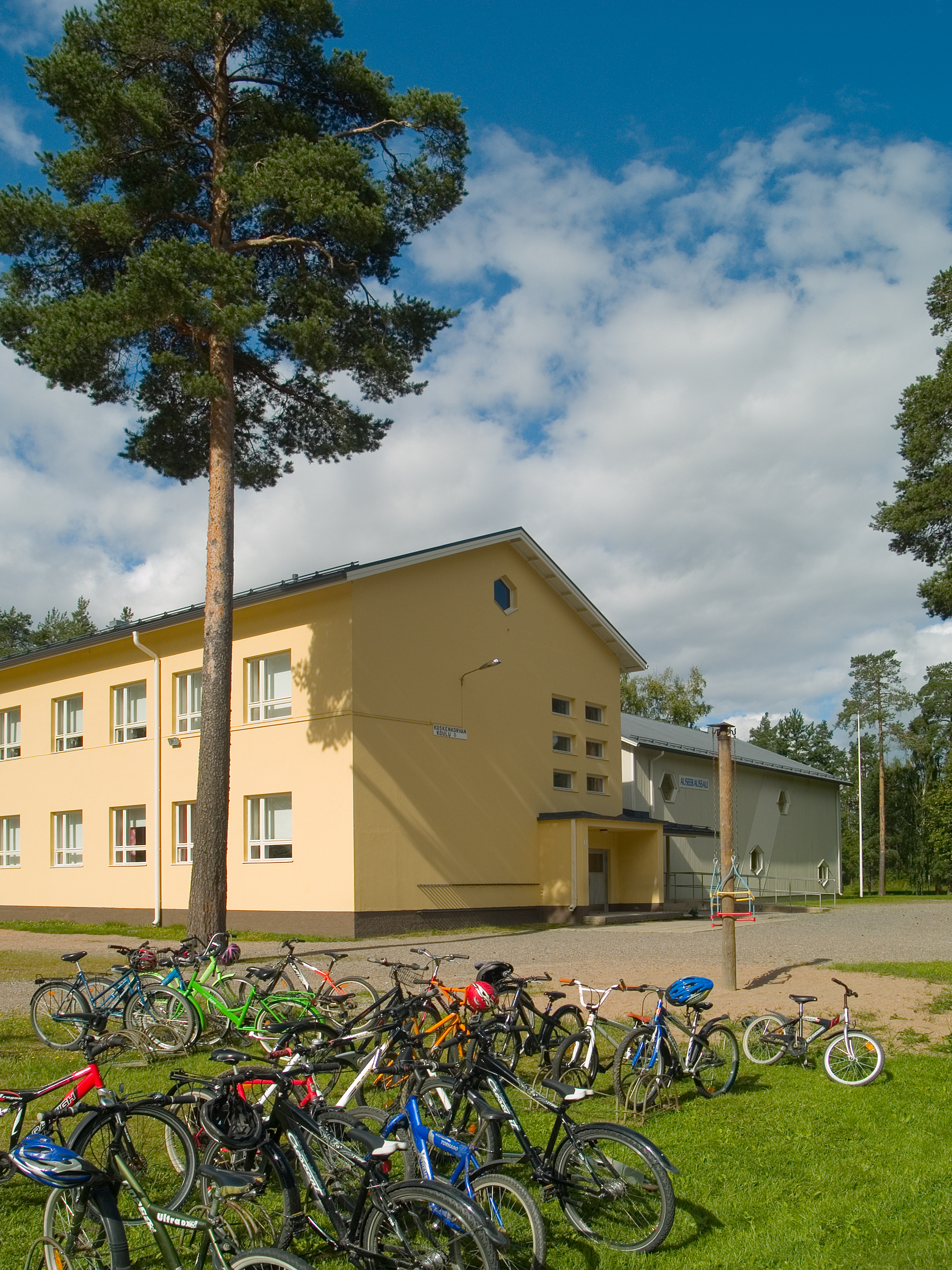 Elementary school in Koskenkorva, Ilmajoki, Finland. Built in 1950, extension "Auseeraussali" in the background built some 50 years later.